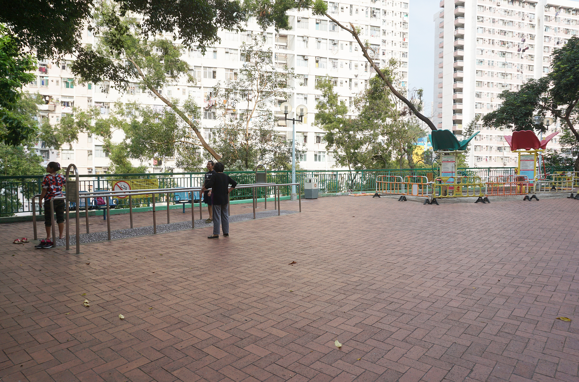 Wo Lok Estate in Kwun Tong, Hong Kong.